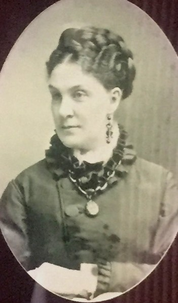 Mrs. Oakes Angier Ames, available for view in Queset House, North Easton, Massachuetts. Courtesy of Ames Free Library.